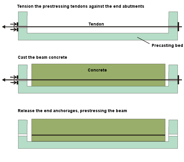 Pretensioning process for a concrete beam (with English notation)